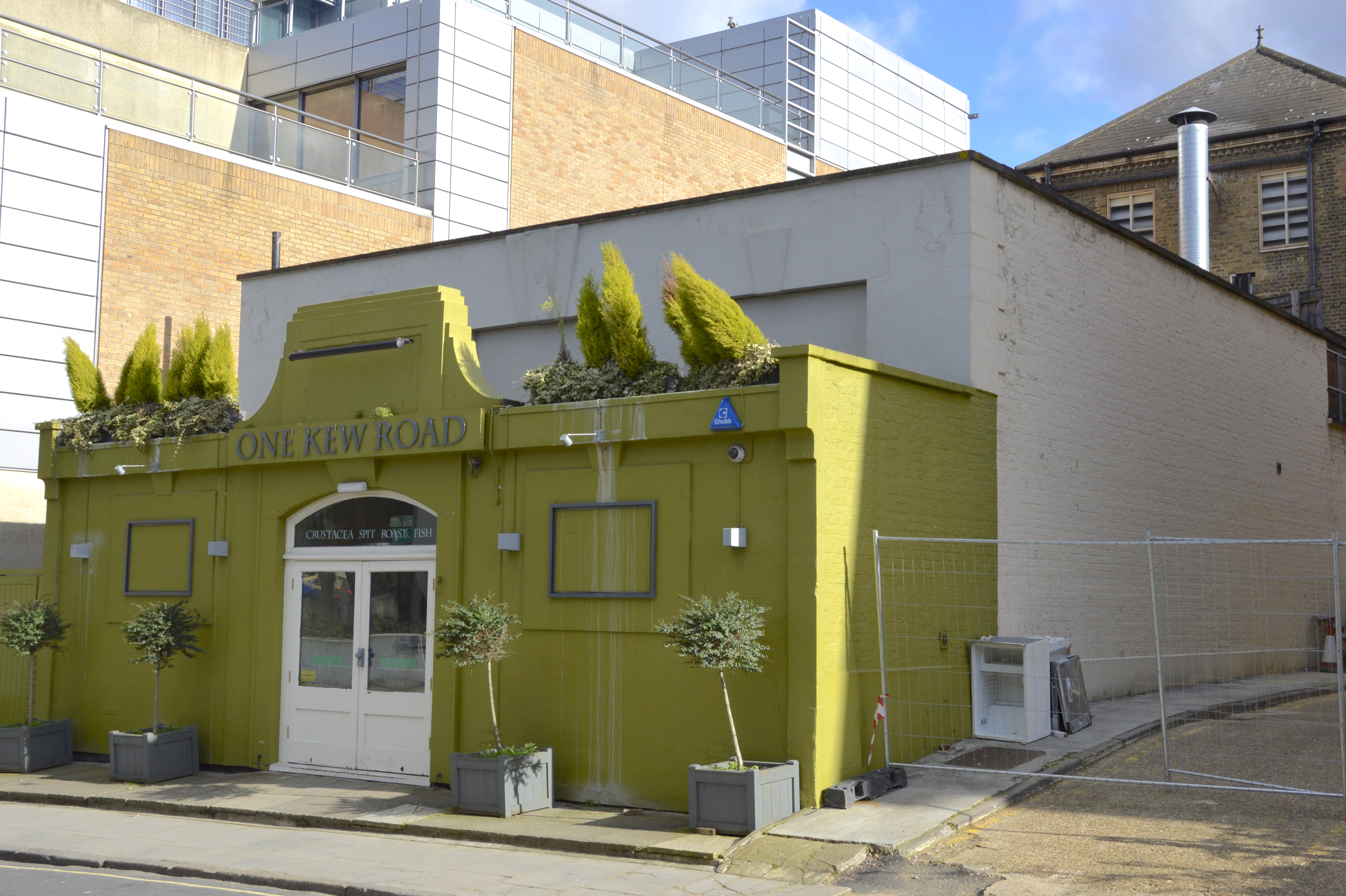 Rear entrance on Parkshot to the One Kew Road restaurant in Richmond upon Thames, London. Formerly known as the Station Hotel, this back room was home to the Crawdaddy Club, which in 1963 gave the Rolling Stones their first residency, followed by The Yardbirds.